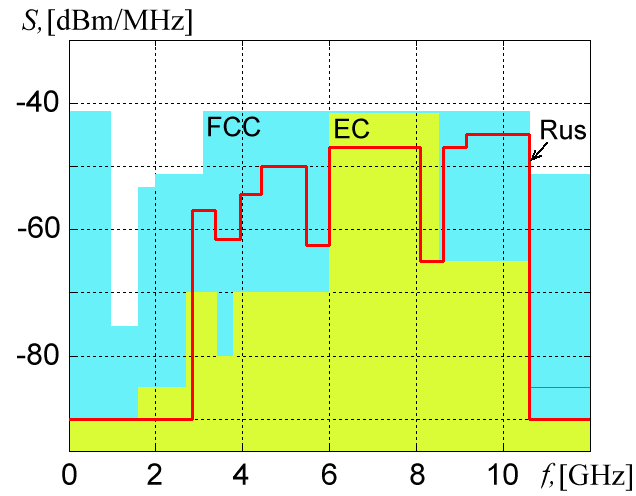 Spectral masks for indoor UWB communications in USA, Europe and Russia